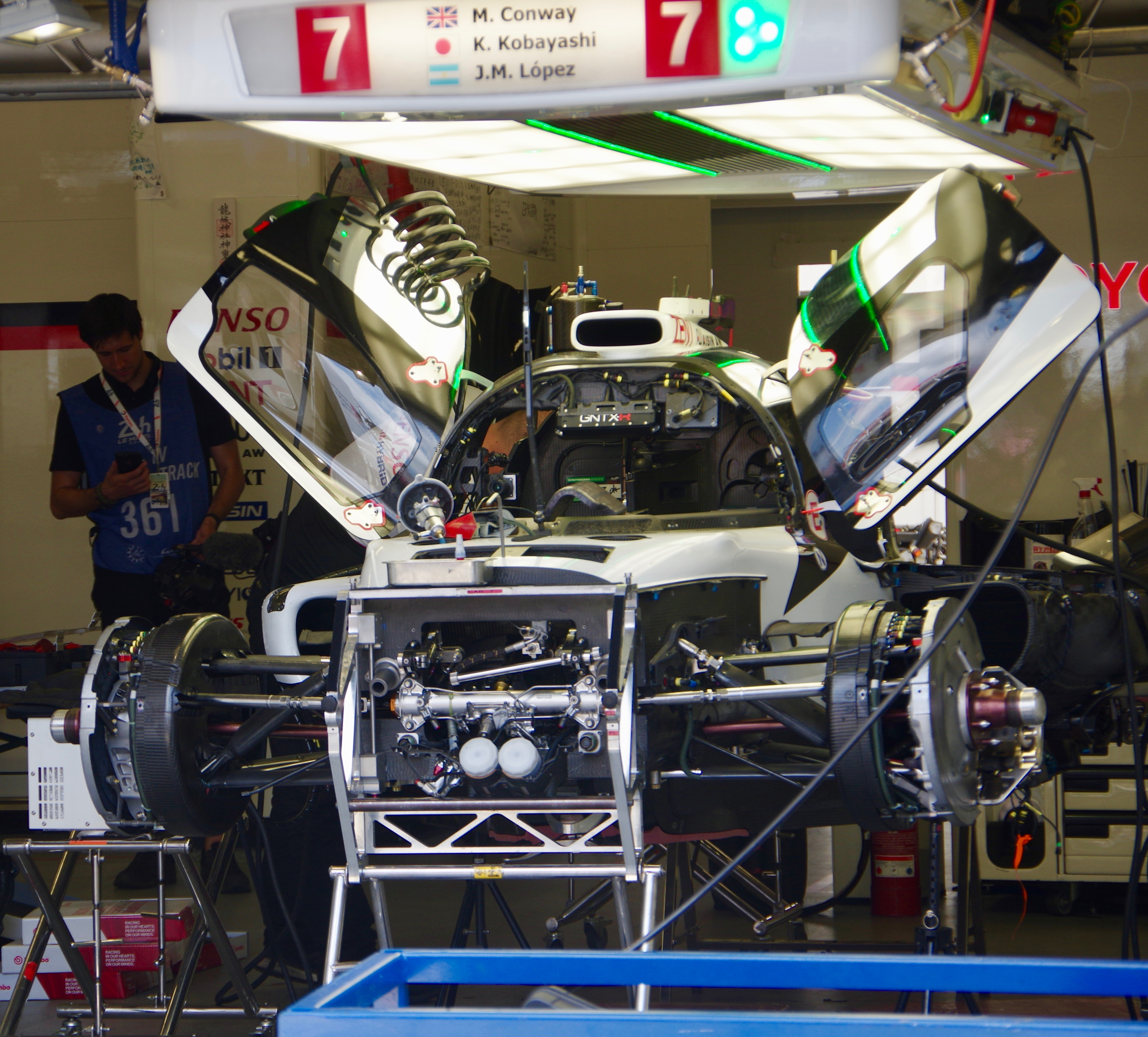 Toyota Gazoo Racing's Toyota TS050 Hybrid in garage